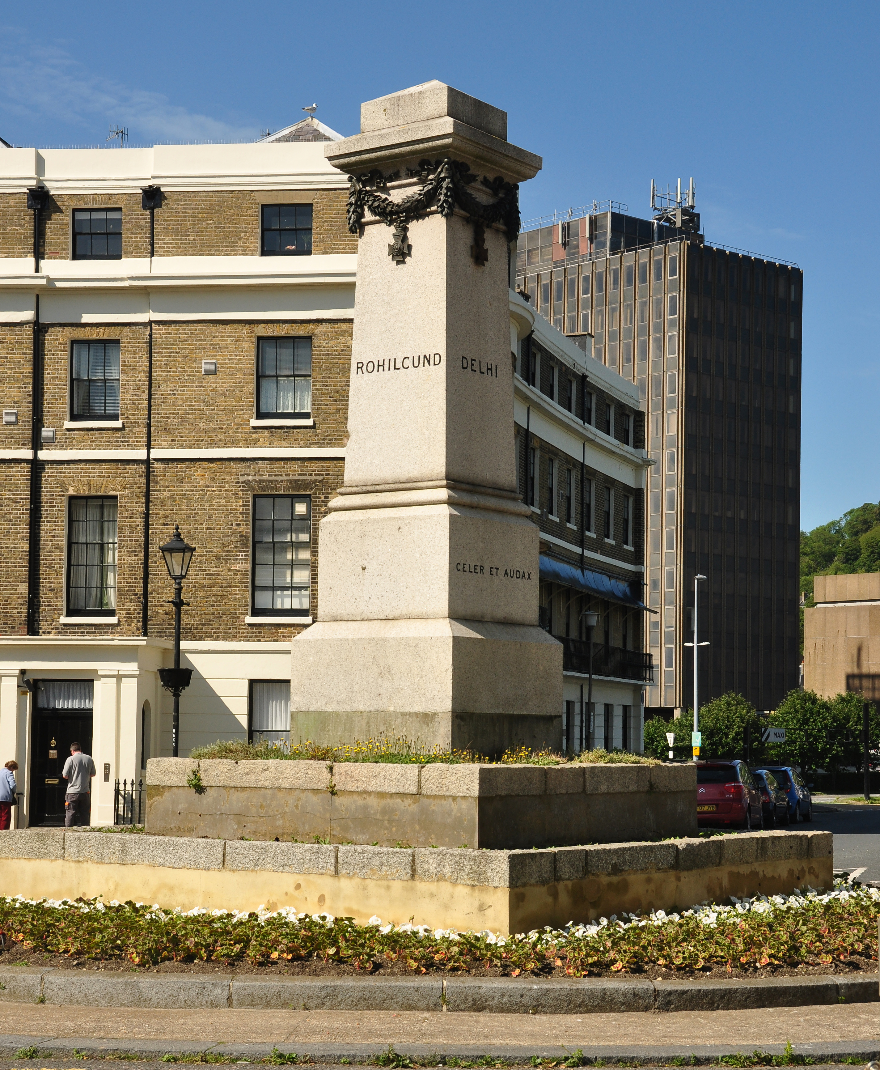 The Indian Mutiny memorial in Dover, Kent.